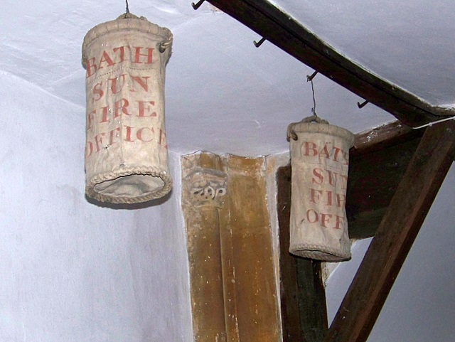 Fire buckets, Church of St Mary the Virgin, Puddletown Hanging from the gallery there are the original fire buckets provided by the insurers, Sun Insurance in 1805.